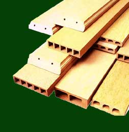 Taken from factory, edited with photoshop